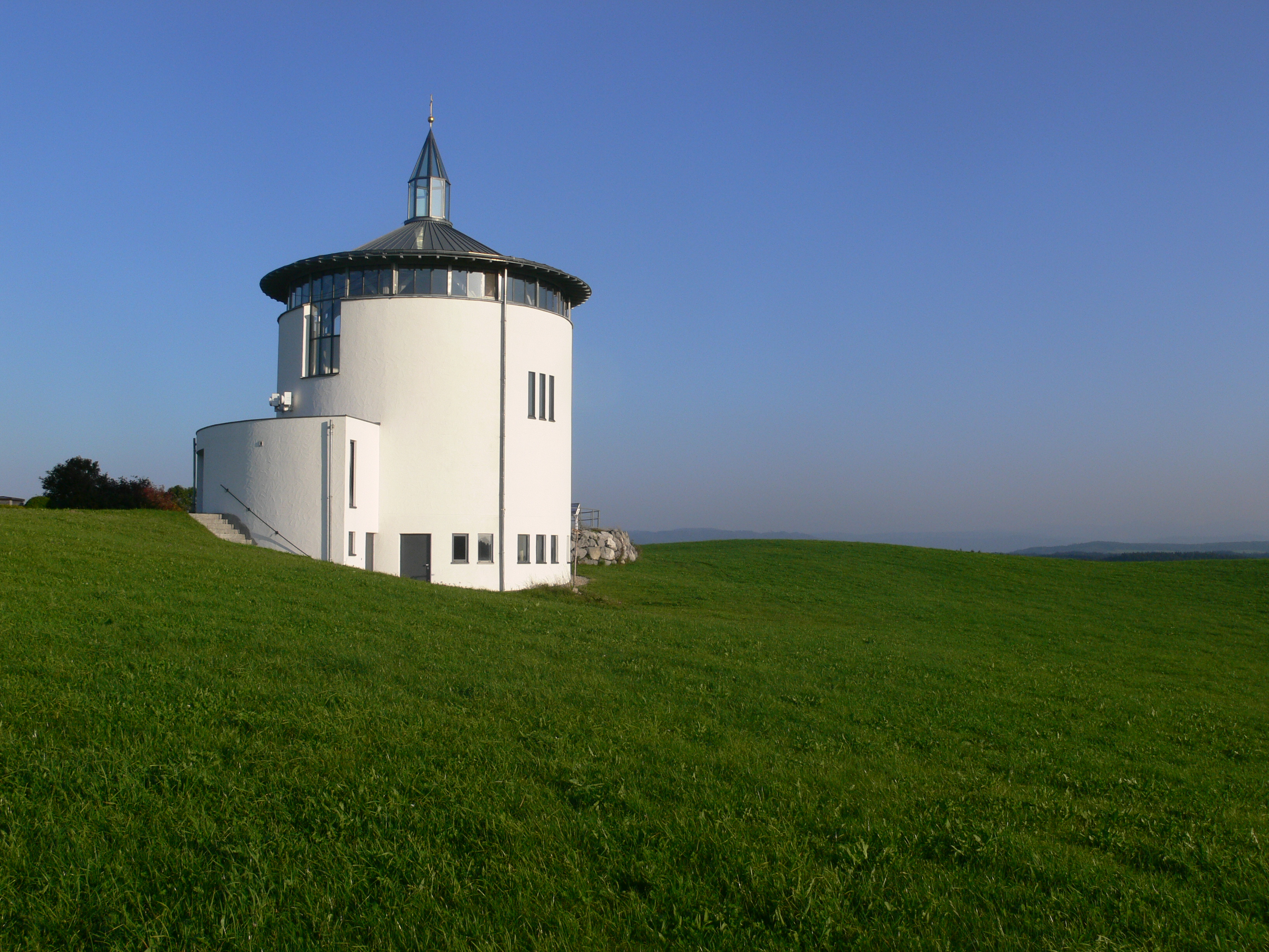 Highway Chapel St. Gallus, Leutkirch, Germany